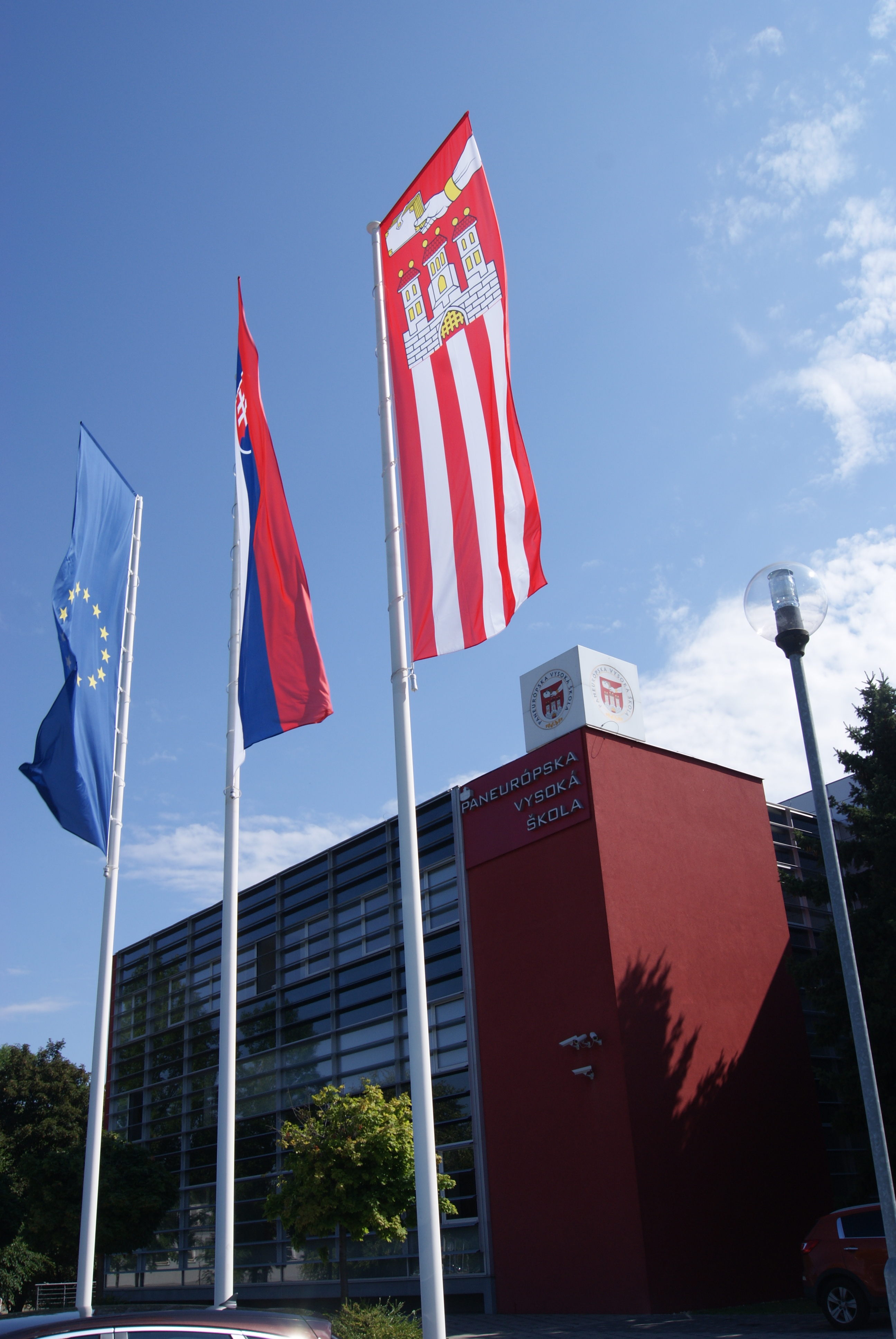 Pan-European University, Bratislava, Slovakia.